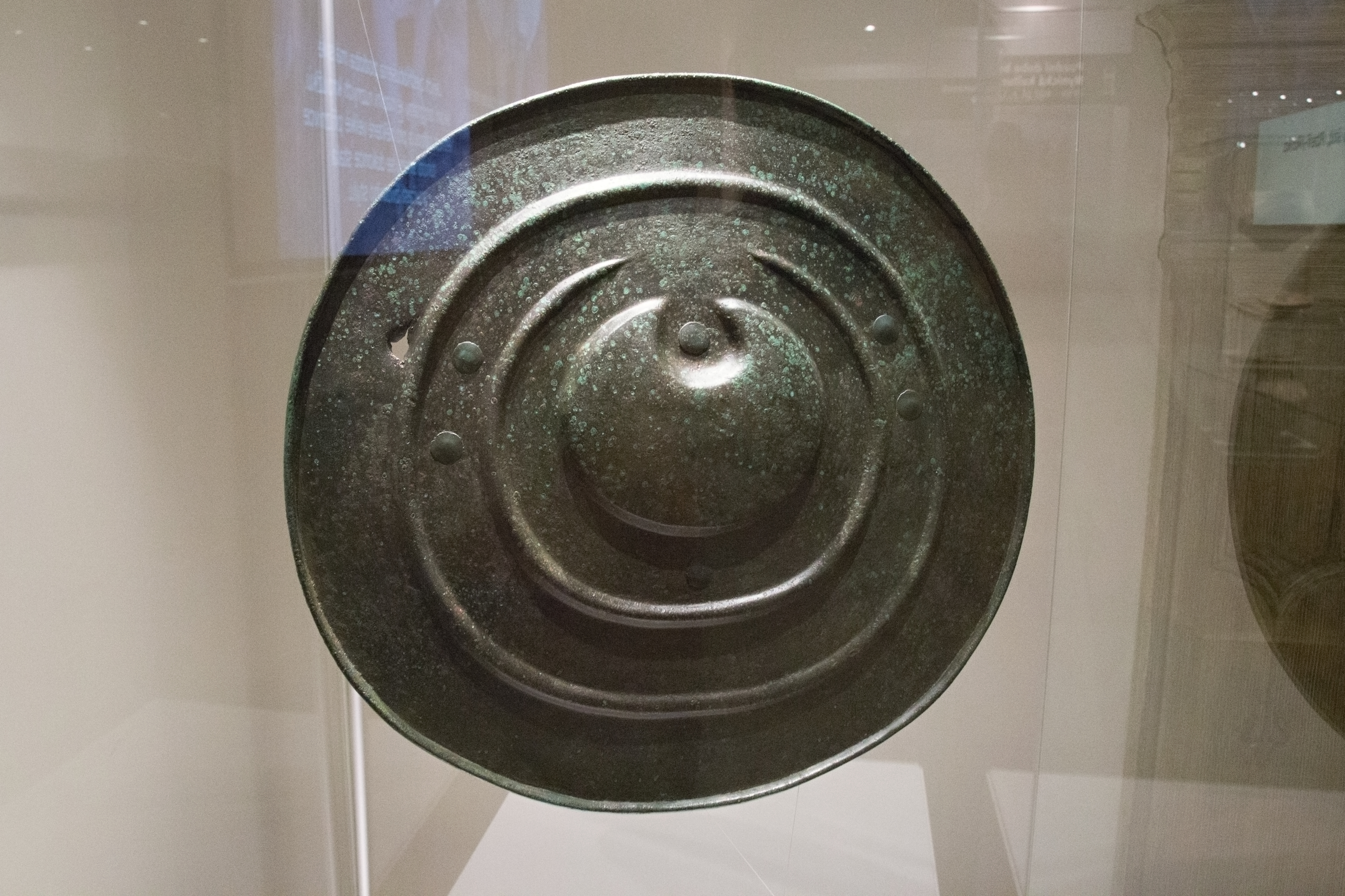 Bronze shield, found in Pilsen-Jikalka during the construction of the house in 1896. Nynice culture, 950 – 750 BC (late Bronze Age). Museum of Western Bohemia in Pilsen.